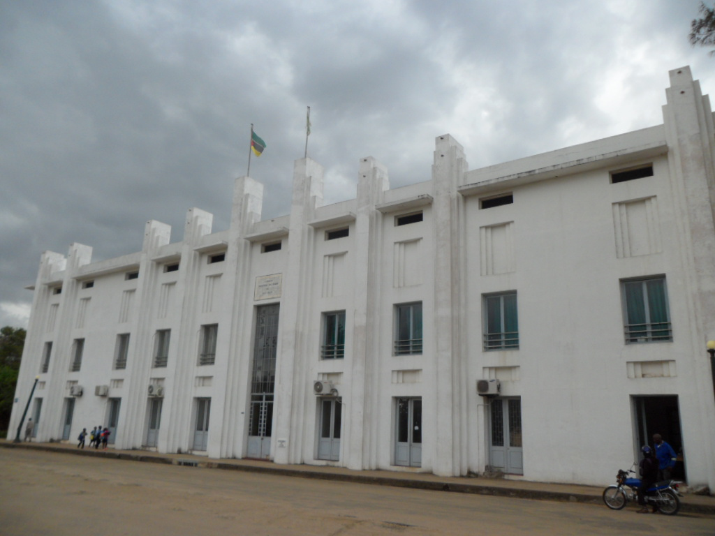 Municipal council of Quelimane, Mozambique